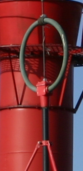 Radio navigation antenna